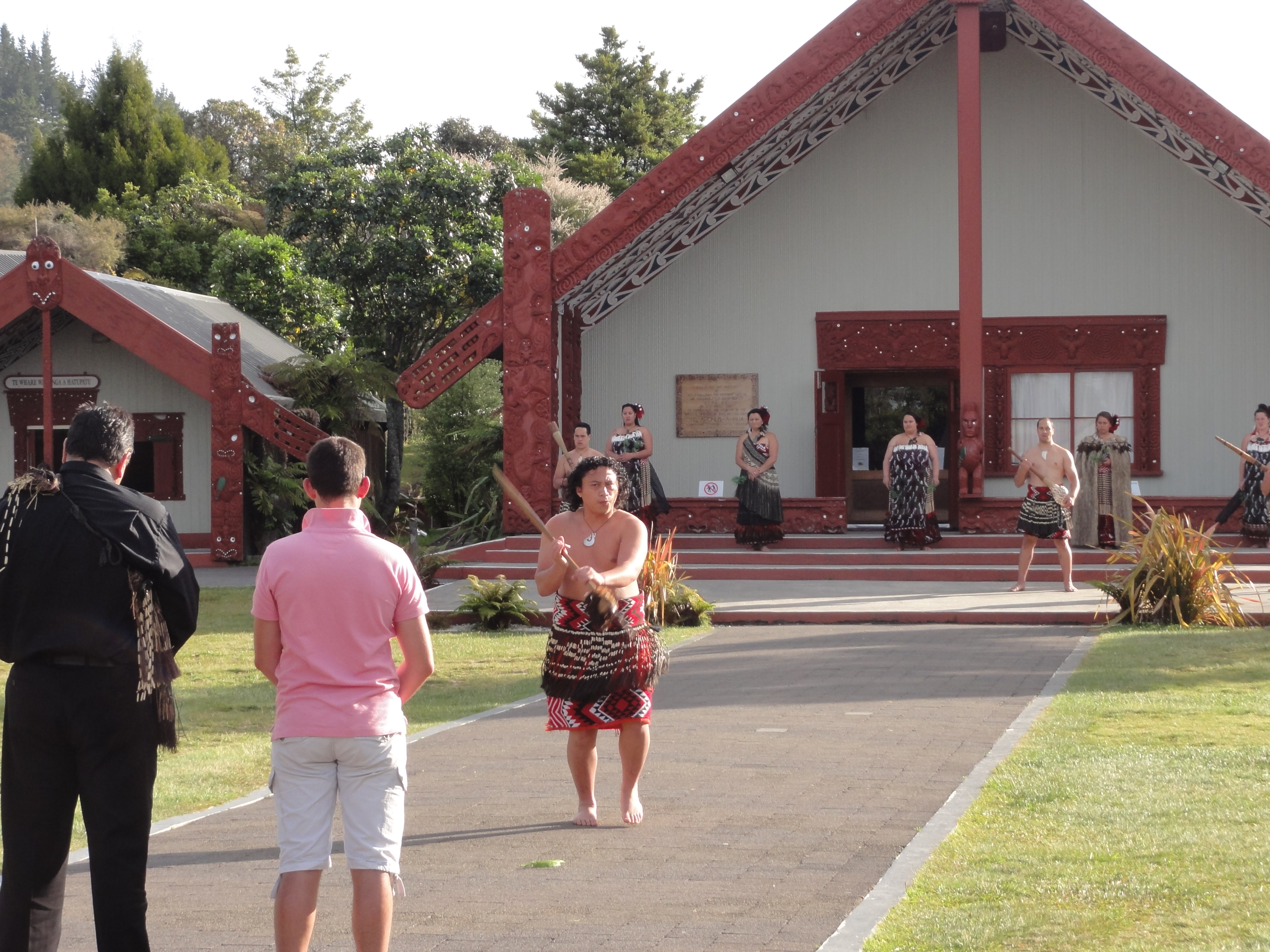 traditional maori greeting ceremony for visitors, Te Puia, Rotorua, New zealand